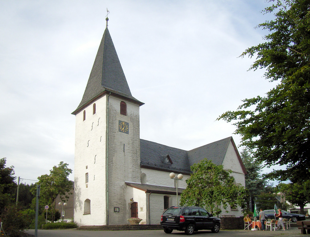 Romanesque church of Lieberhausen, district of Gummersbach, North Rhine-Westphalia, Germany